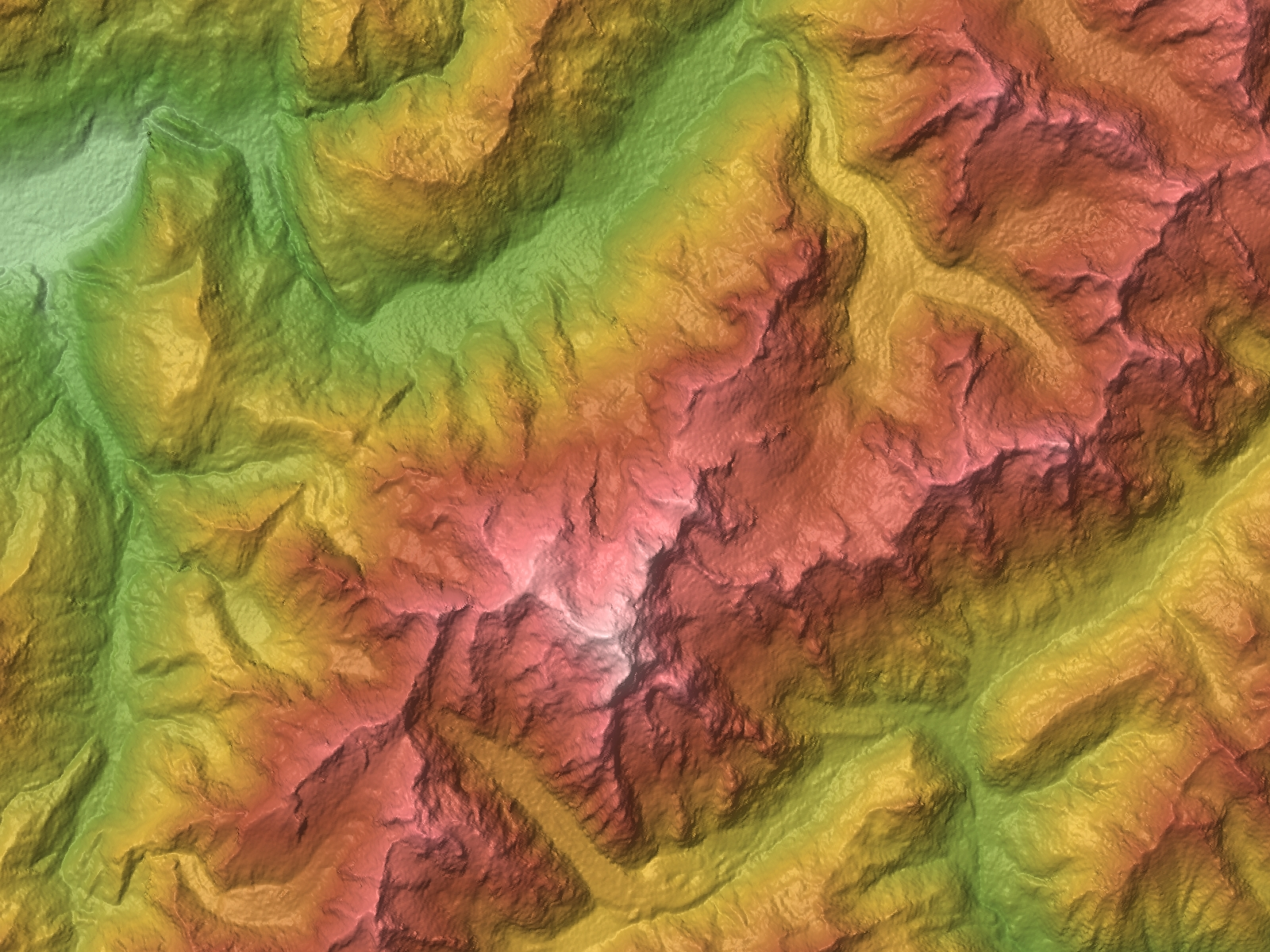 Around Mont Blanc in the border between France and Italiy.